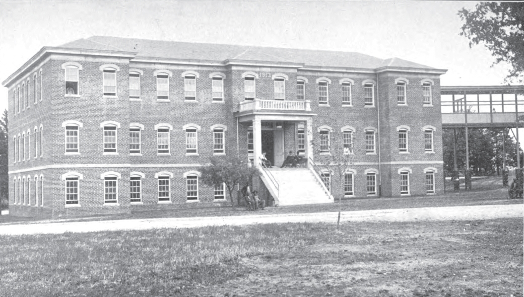 Building for Male Psychopathics